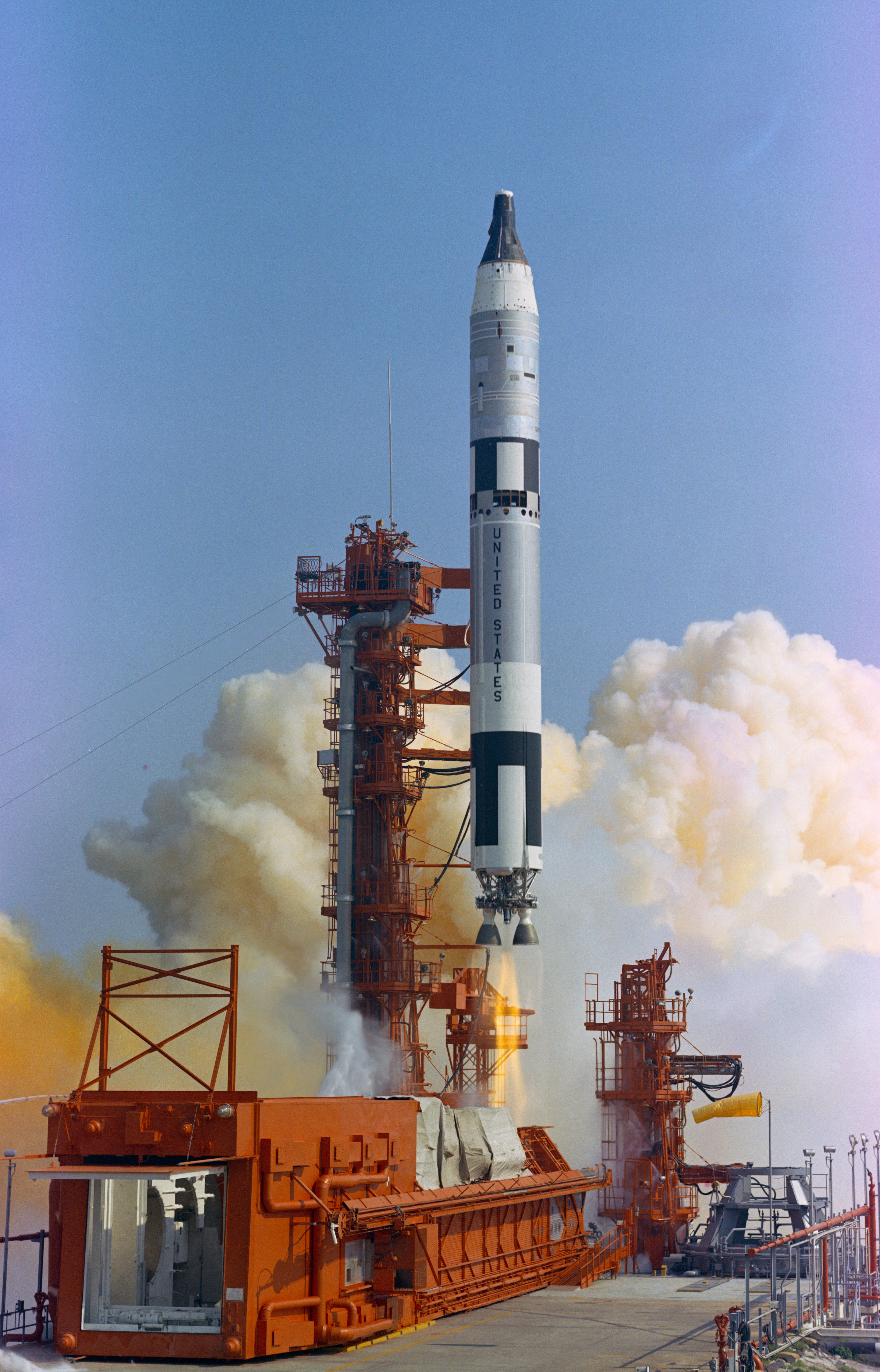 The Gemini 9 spacecraft was successfully launched from the Kennedy Space Center's Launch Complex 19 at 7:39 a.m., June 3, 1966. Image ID: S66-34098